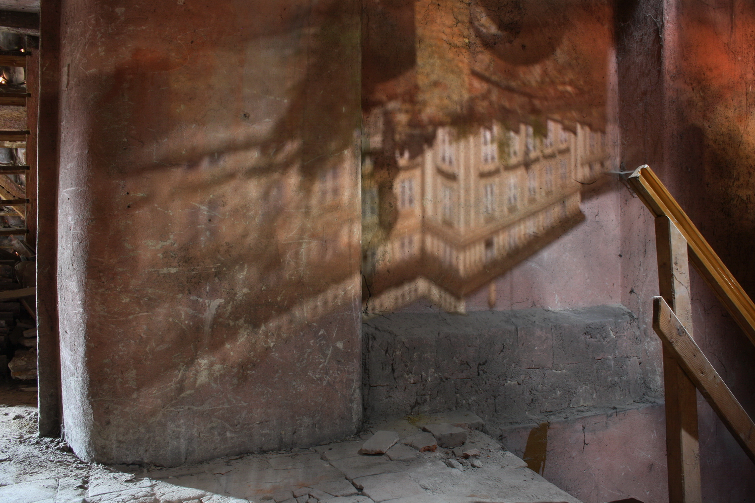 The image of the New Royal Palace at Prague Castle (size aprox. 4 x 2 m) created at the attic wall by a hole in the tile roofing.